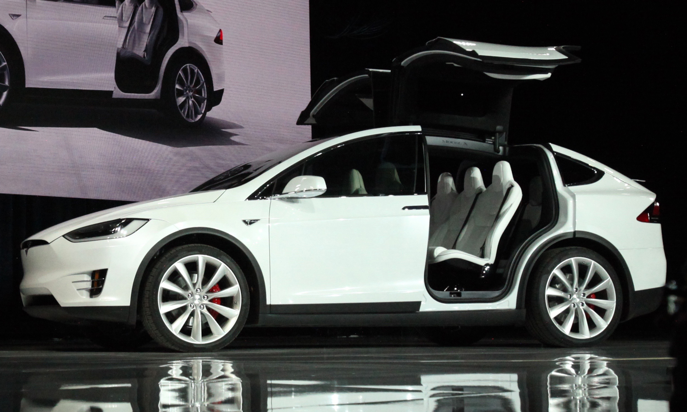 Close up of Tesla Model X at the market launch ceremony. Shown VIN0002.